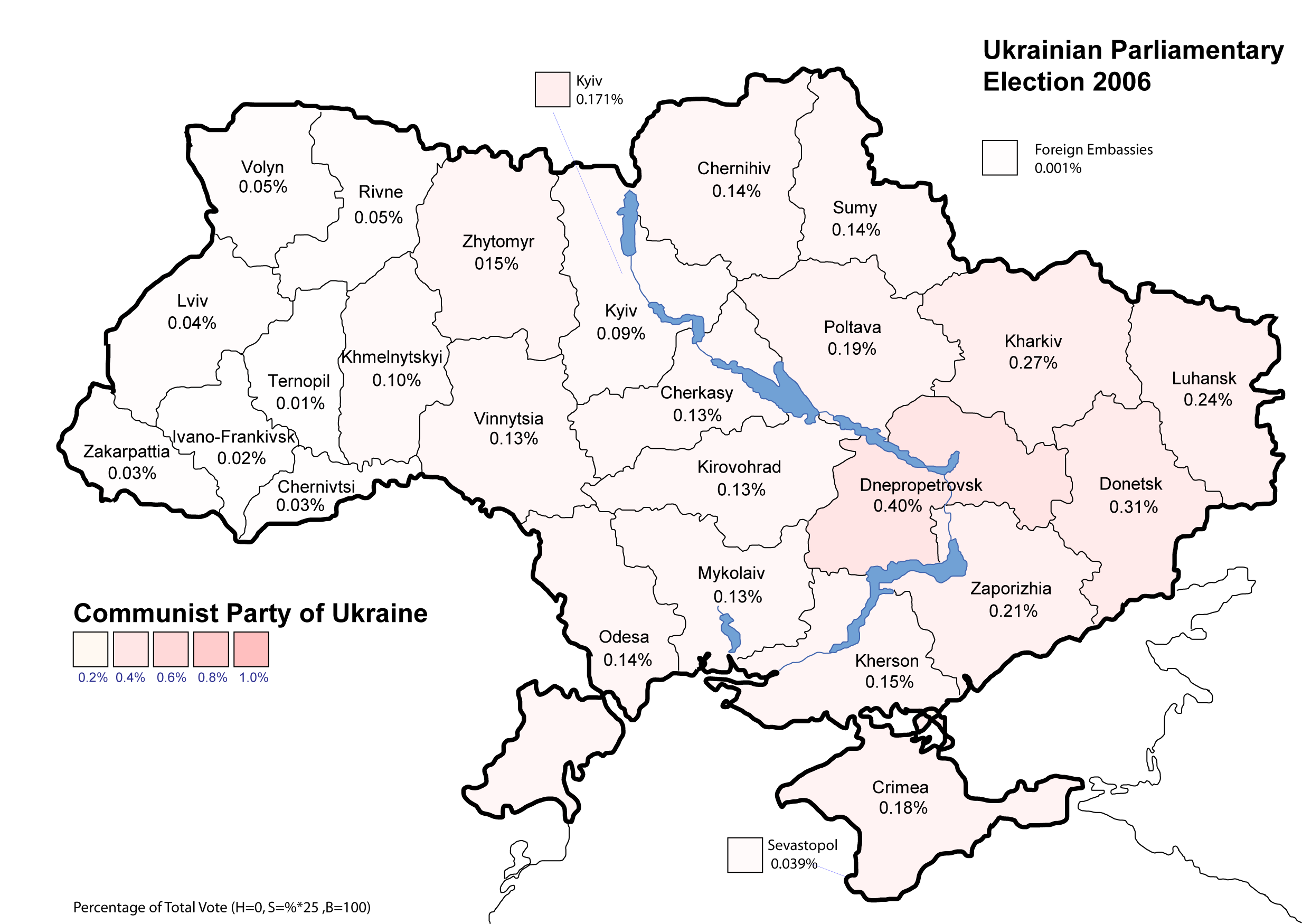 Ukrainian Parliamentary Election 2006 - Communist Party of Ukraine (verbose) percentage of total national vote (H=0, C=%*25, B=100)